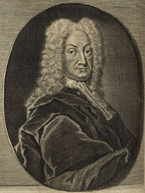 Christian August Heumann